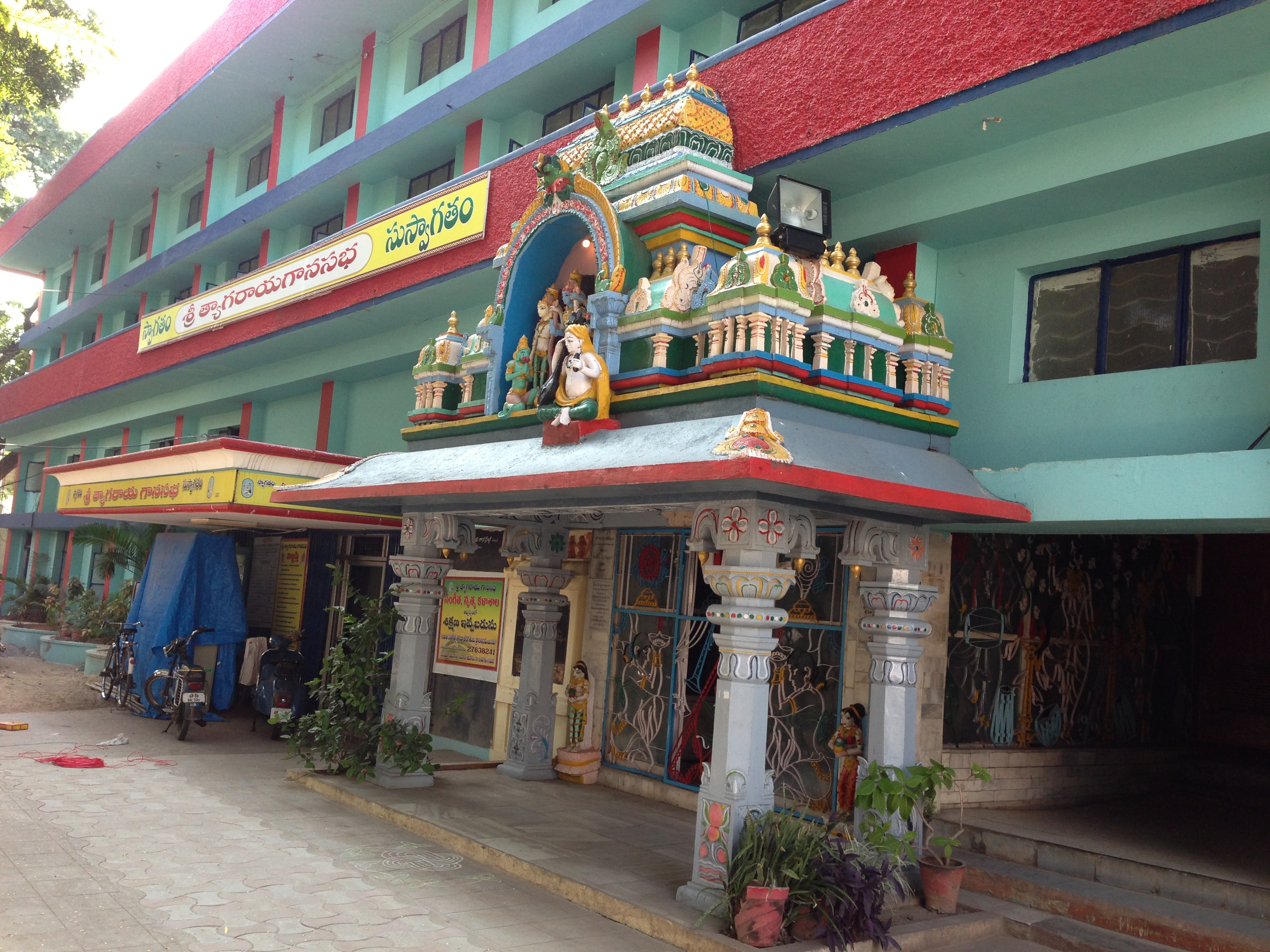 Sri Thyagaraya Gana Sabha, Chikadpally, Hyderabad, India.